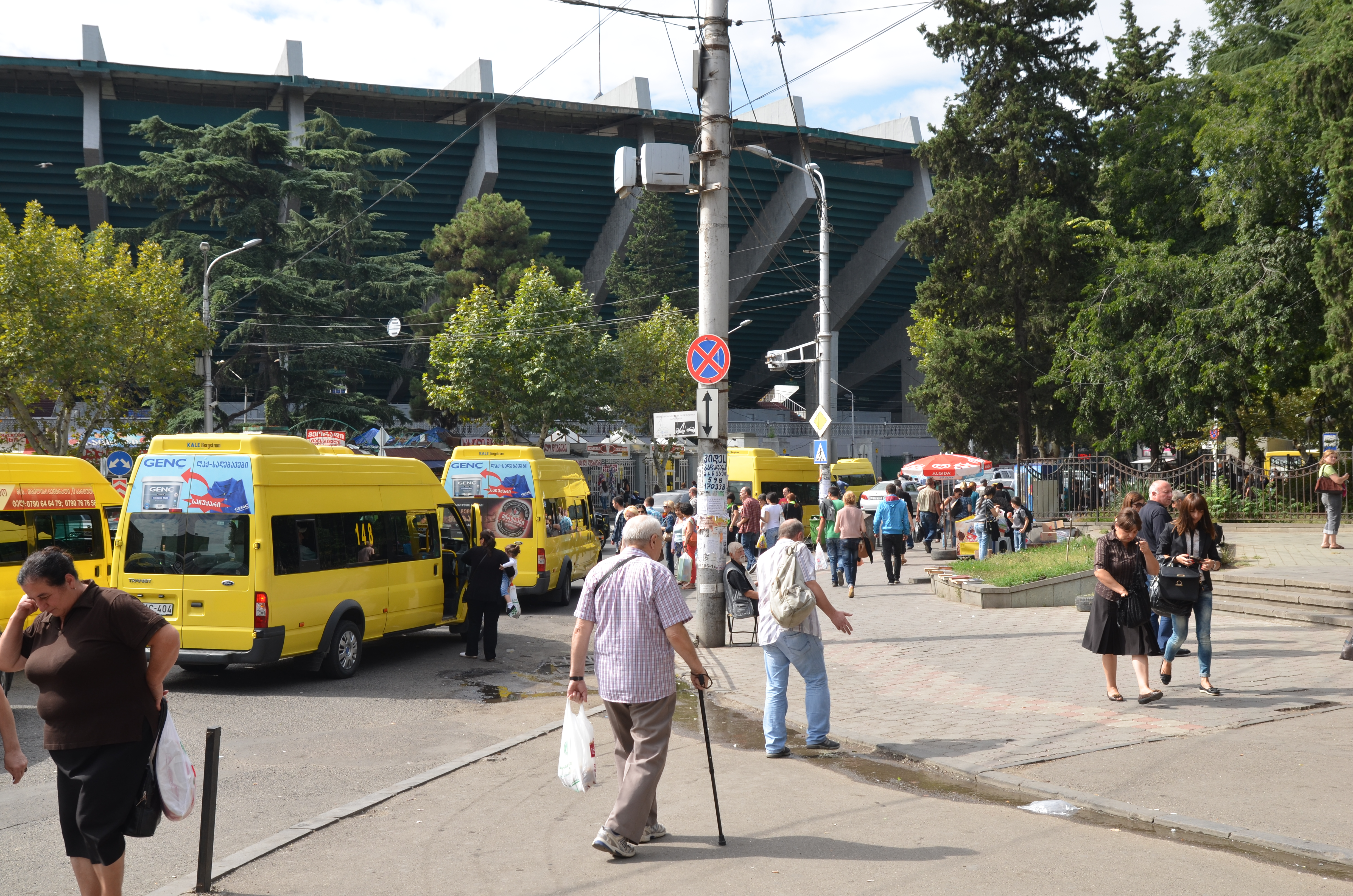 Tbilisi: Minibus (Marshrutka) stop between stadium (Dinamo Arena) and central market (on the right hand side)